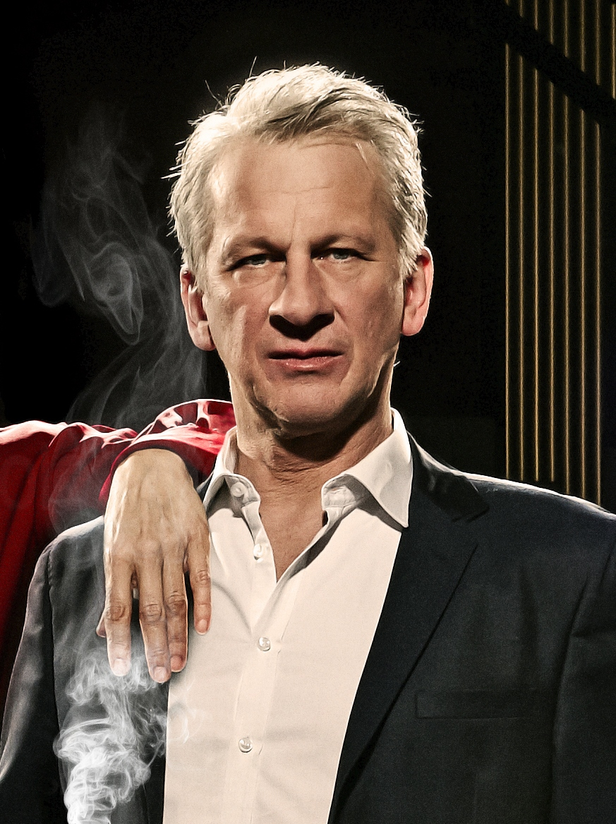 Henrik Koefoed in the Copenhagen theater Folketeatret's production of the play "Liva" about the actress Liva Weel.